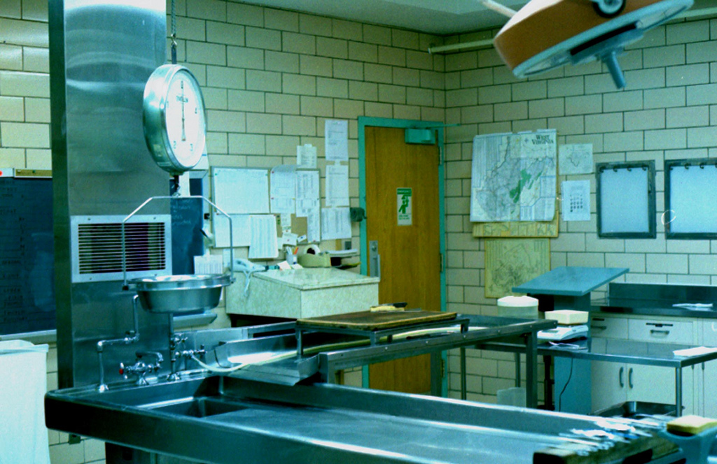 Wide angle shot of hospital morgue